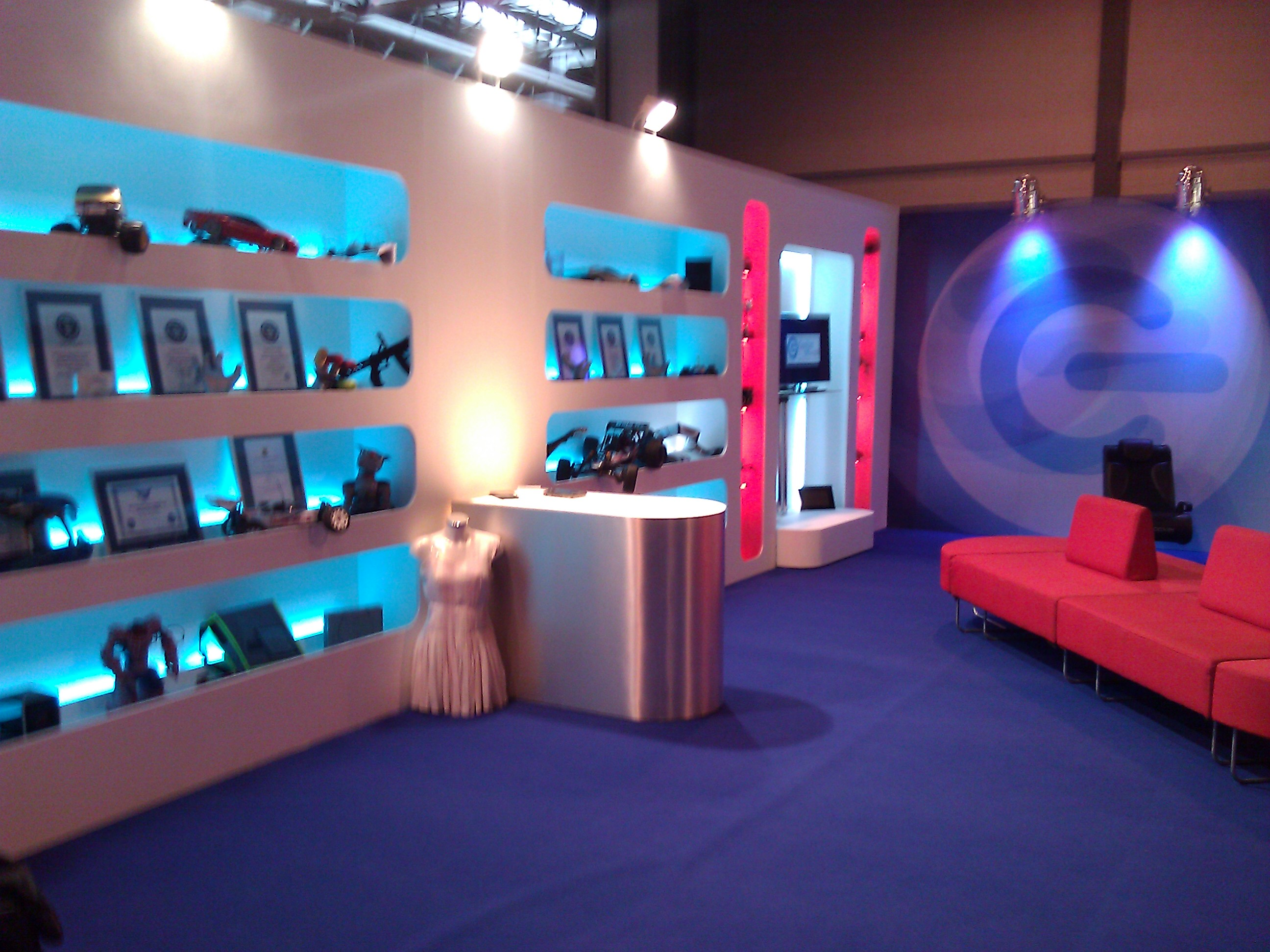 The set of The Gadget Show. I took this picture myself.